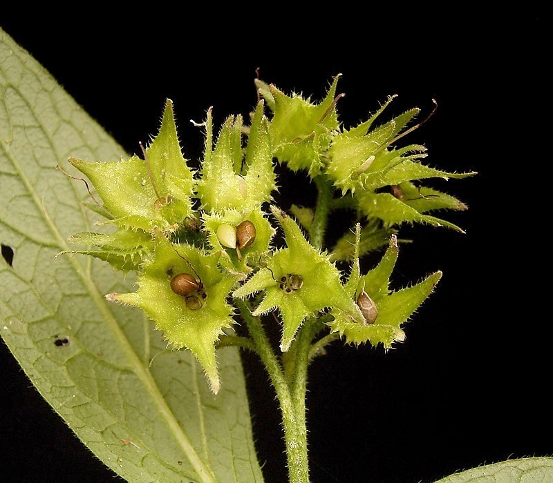 Symphytum officinale